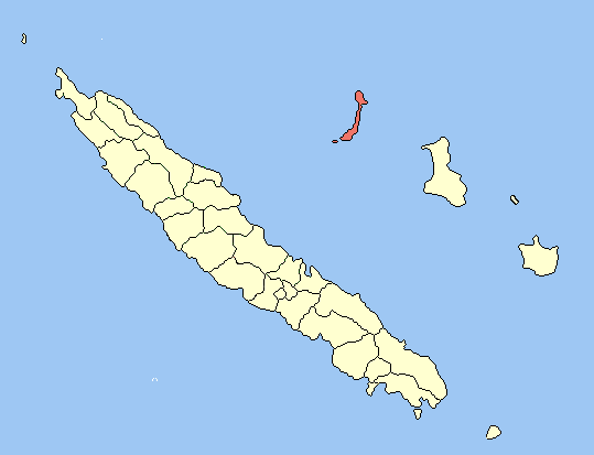 Location of Ouvéa (in red) within New Caledonia